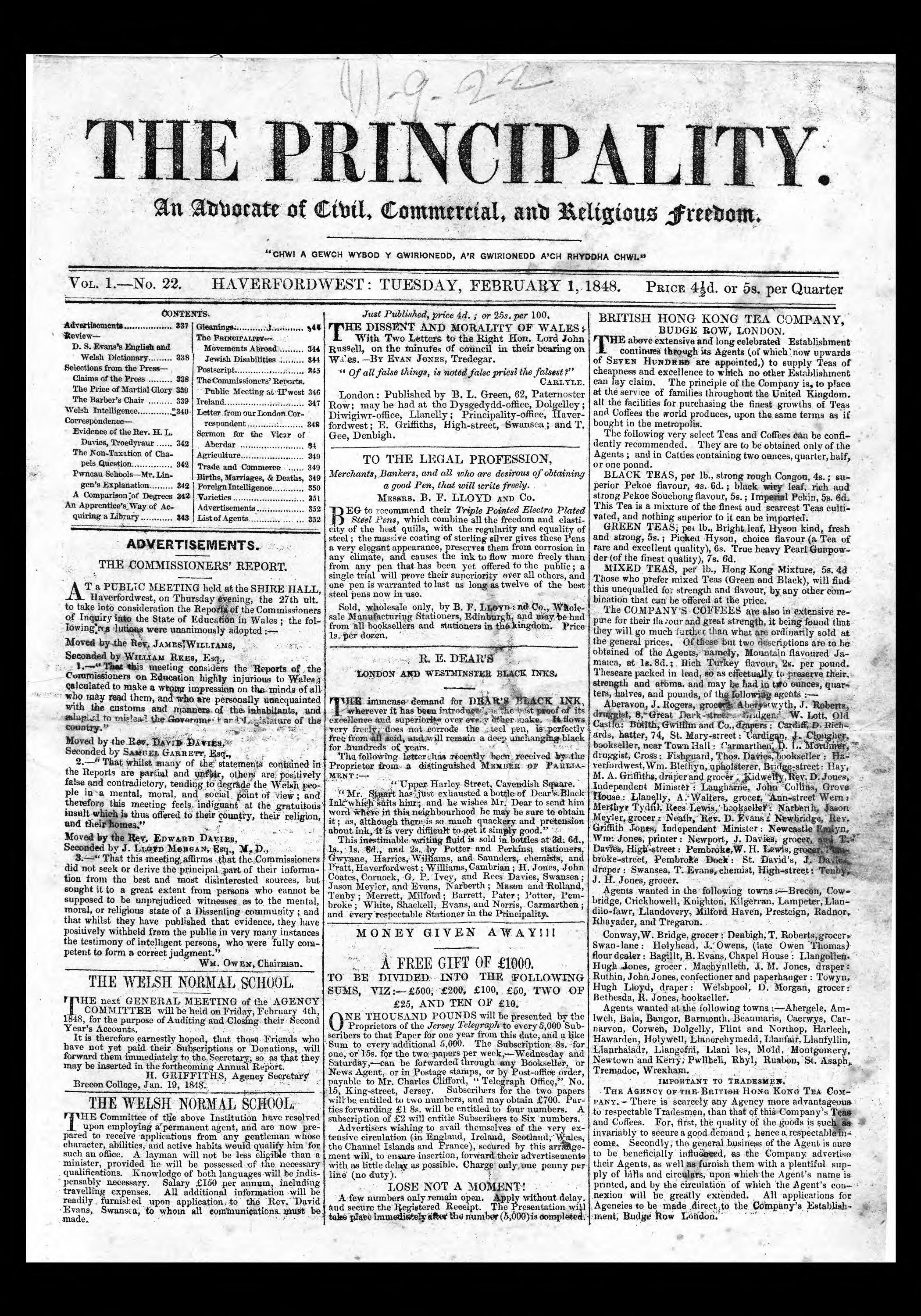 Front page of the earliest surviving copy of the Welsh newspaper The Principality